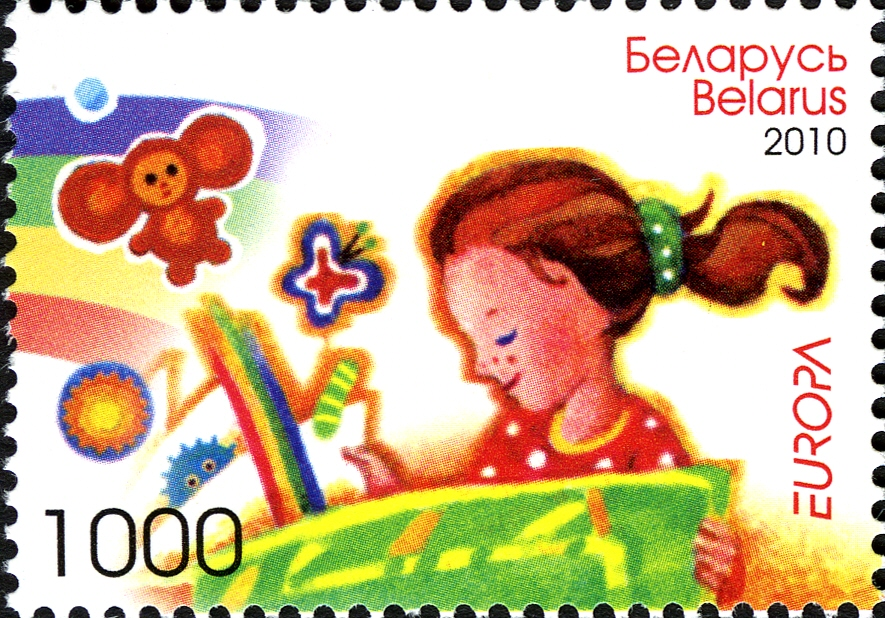 Stamp of Belarus